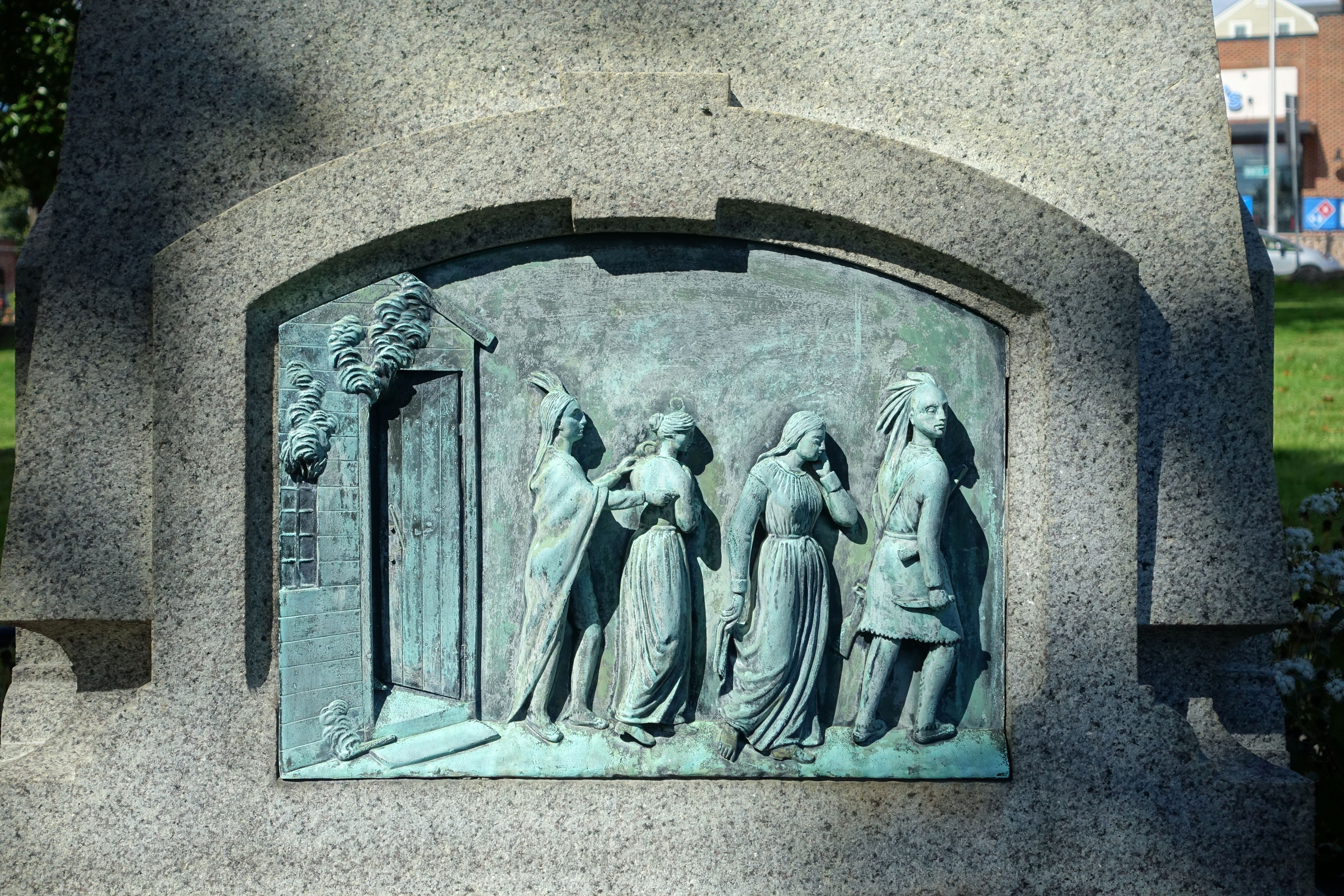 Hannah Duston Monument, by Calvin H. Weeks, 1879 - Haverhill, Massachusetts, USA.